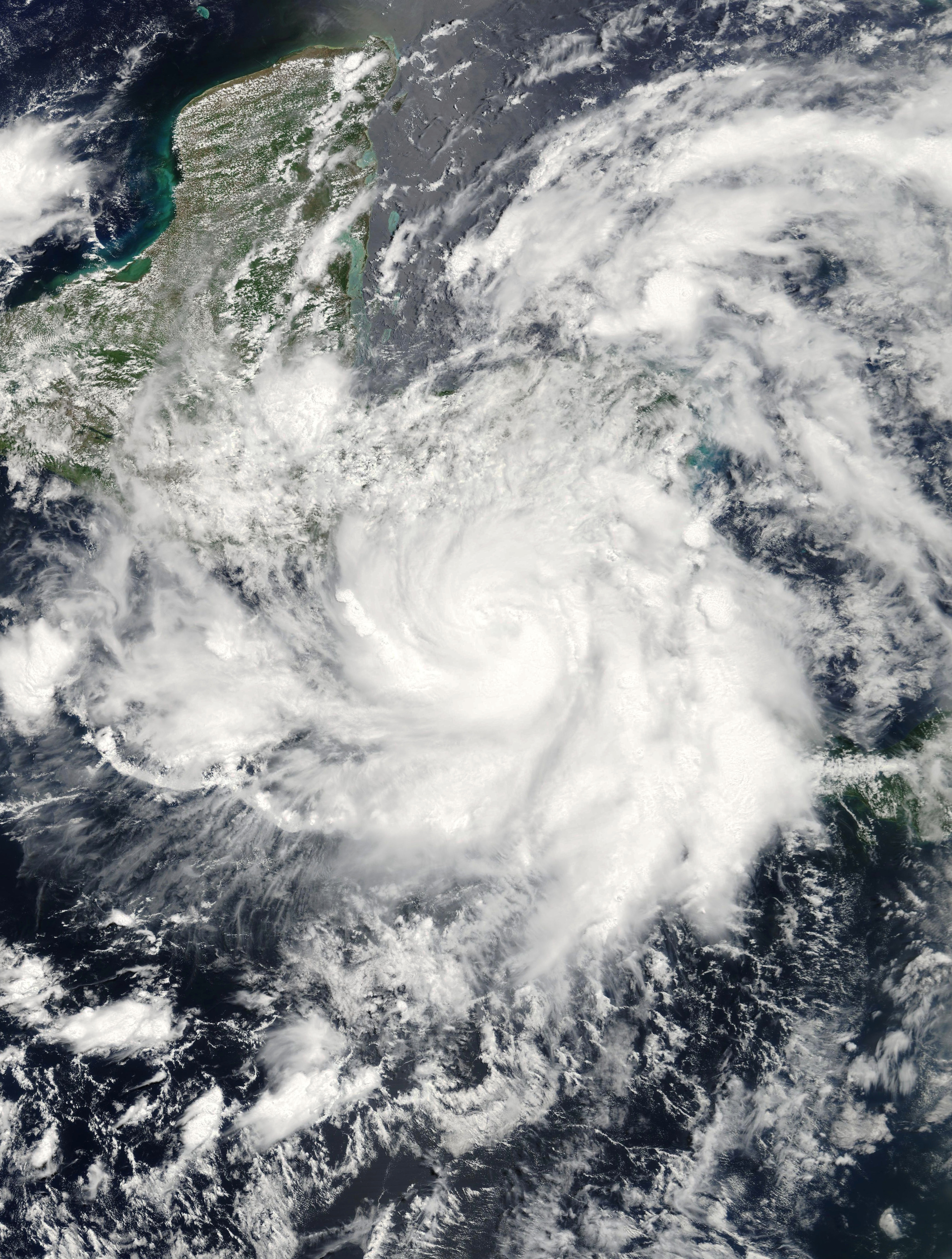 Tropical Storm Alma at peak intensity off the coast of Nicaragua on May 29, 2008